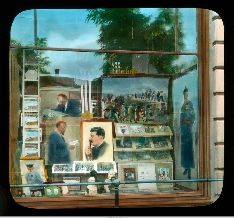 Glass lantern slide coloured by hand, which was taken while Branson De Cou was travelling with his lectures to Odessa, USSR, 1931. Shop's window.